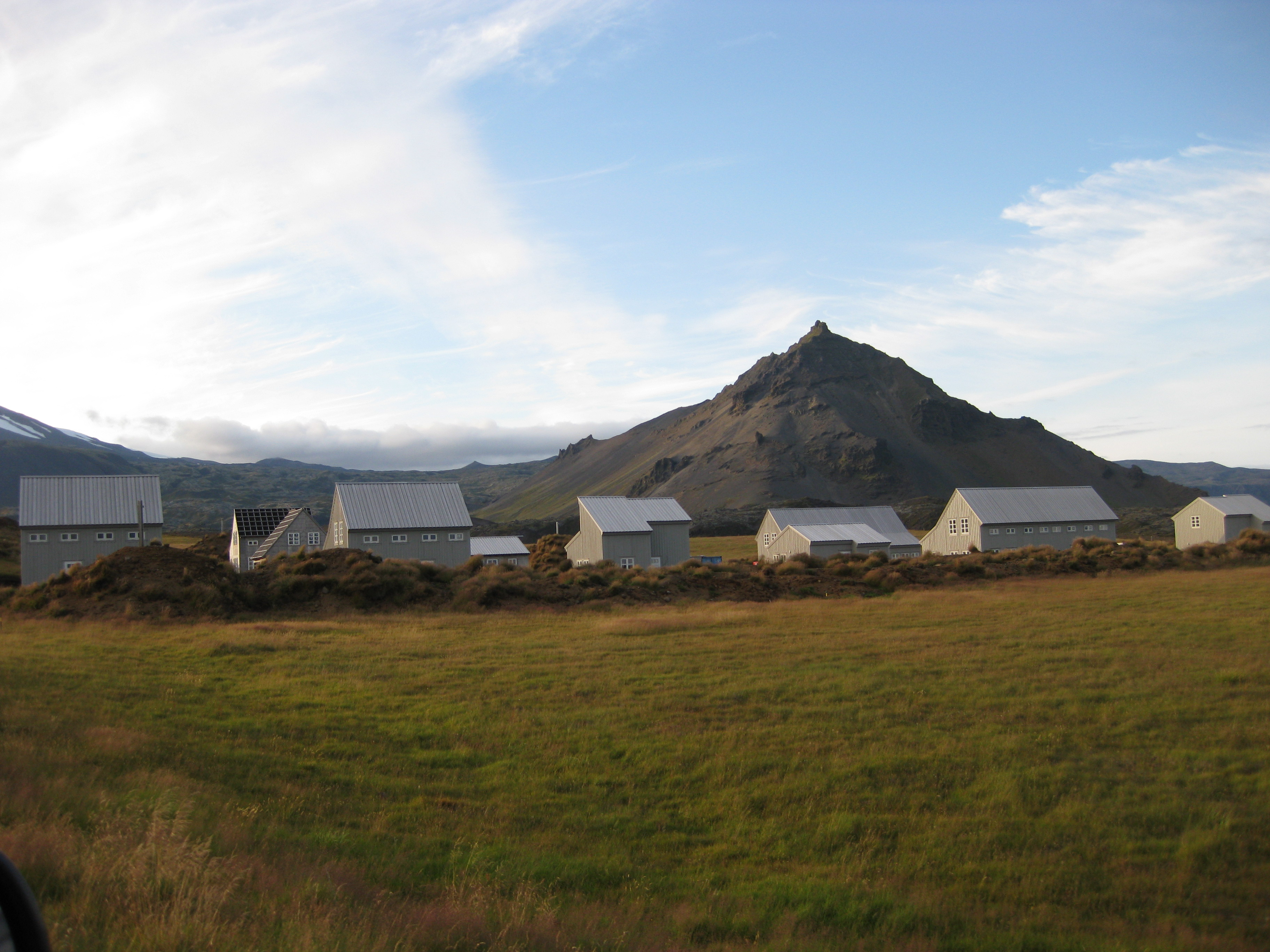 Hellnar in Snæfellsnes , Iceland. Photo by Salvor Gissurardottir in August 2008